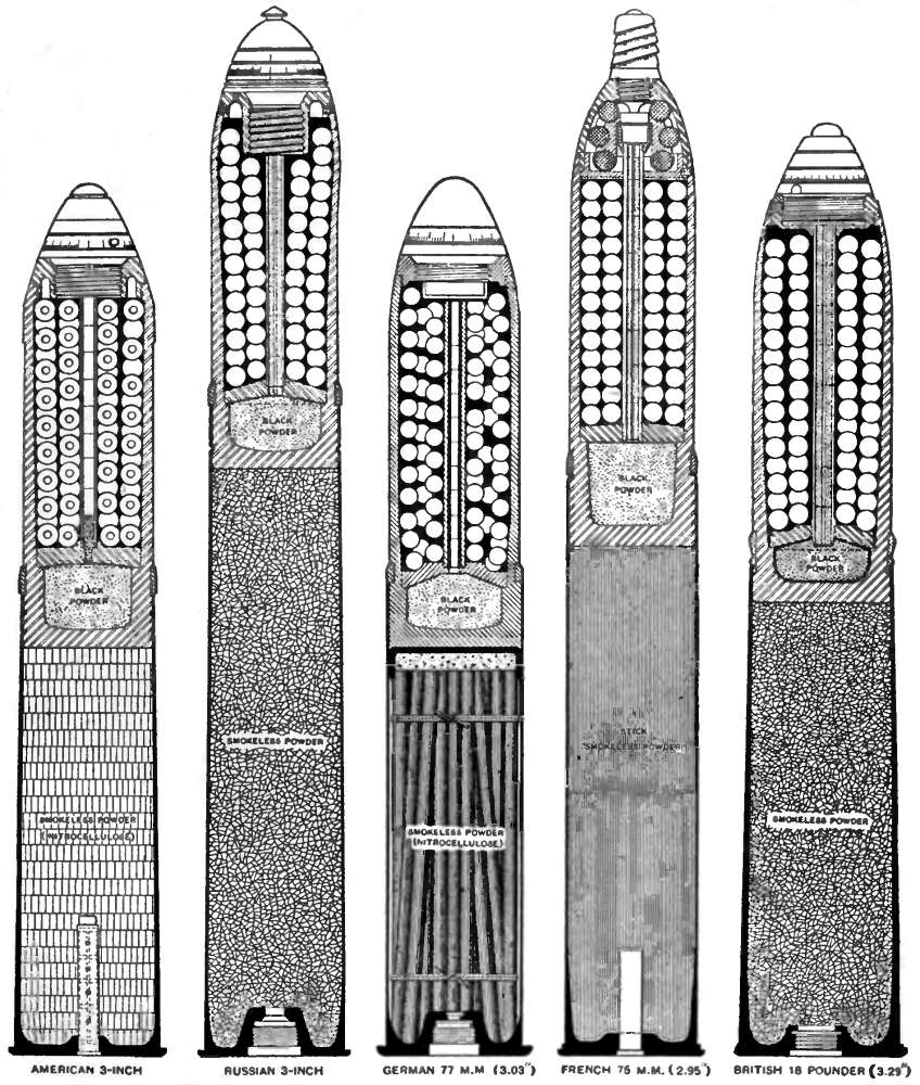 Diagram comparing World War I Shrapnel rounds for Field guns. Left to right :- US 3 inch Russian 3 inch German 77 mm French 75 mm British 3.3 inch (18 pounder)